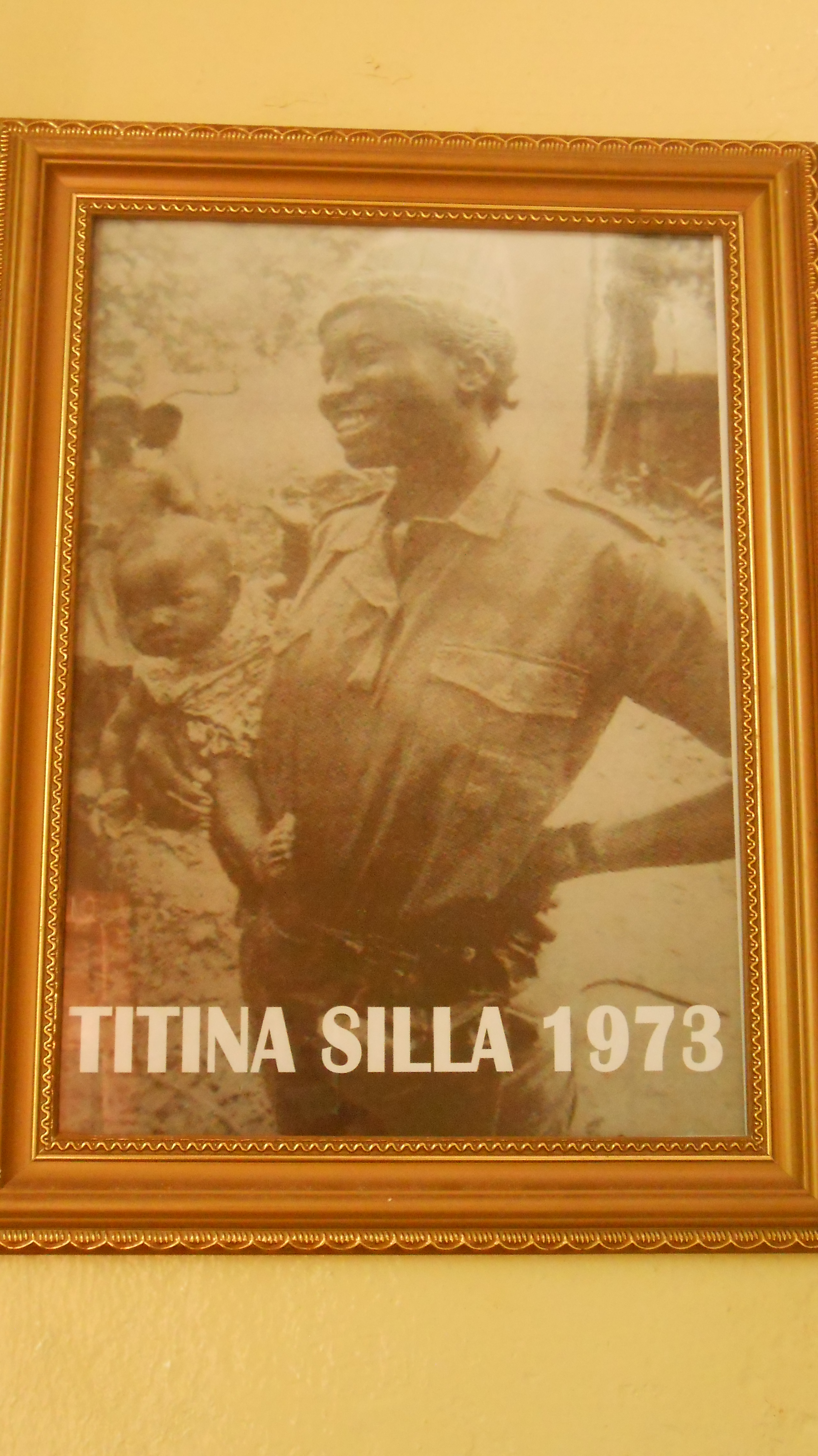 Photography of the legendary guerilla fighter Titina Silá in the Museu Militar da Luta de Libertação Nacional in Bissau.